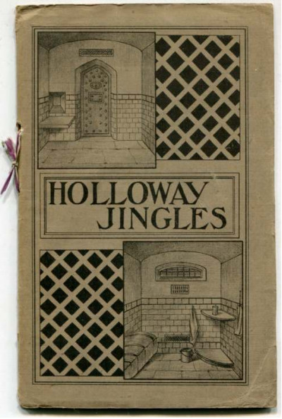 Holloway Jingles is a collection of poetry written by a group of suffragettes who were imprisoned in Holloway jail during 1912. It was published by the Glasgow branch of the Women's Social and Political Union. The poems were collected and edited by Glasgow suffragette Nancy A John, and smuggled out of the prison by John and Janet Barrowman. The foreword was written by Theresa Gough